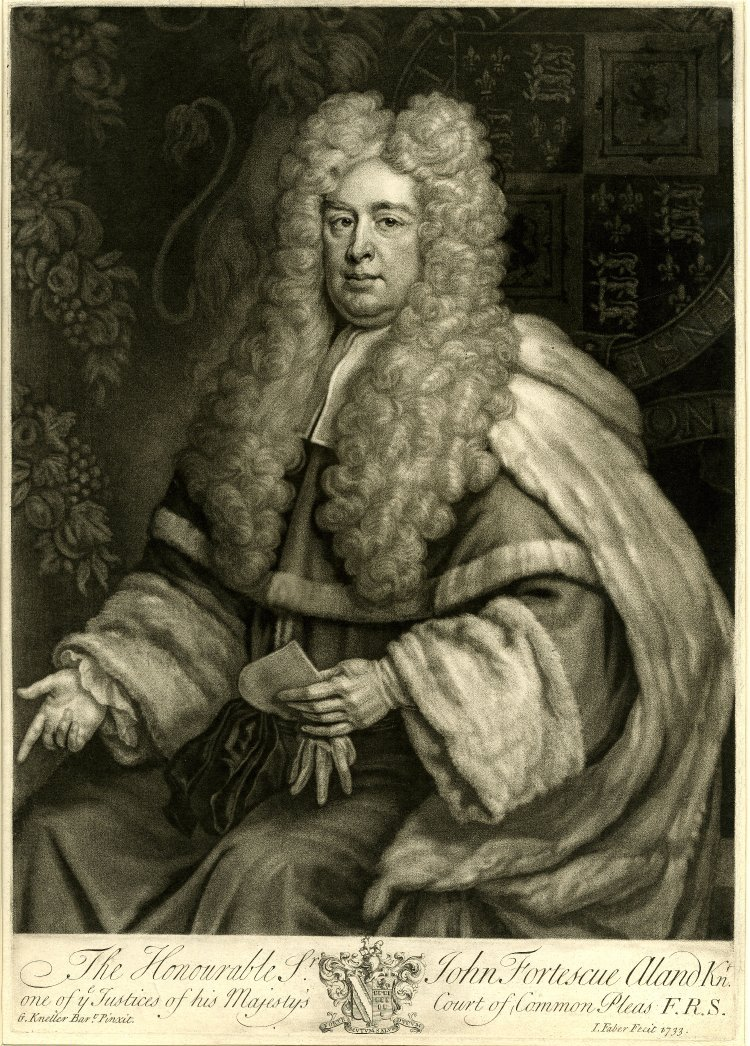 A mezzotint of John Fortescue Aland, 1st Baron Fortescue of Credan (7 March 1670 – 19 December 1746), an English lawyer, judge, politician, and writer on English legal and constitutional history.